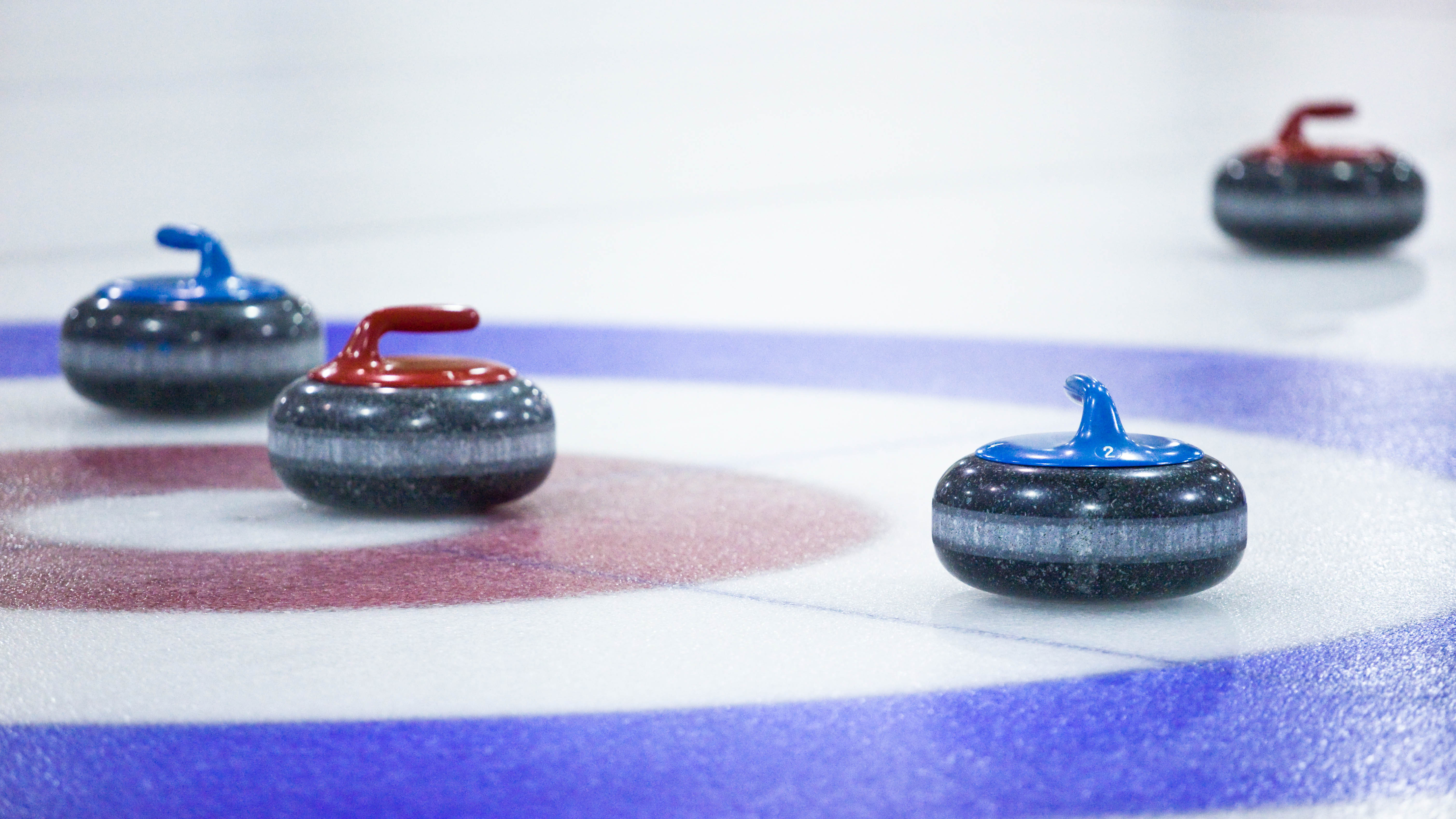 The faculty had a curling bonspiel at the East York Curling Club and I went to take pictures of the event. It looked really fun. I'm gonna try it next time... without the very expensive camera gear.... the ice and me just do not mix well.